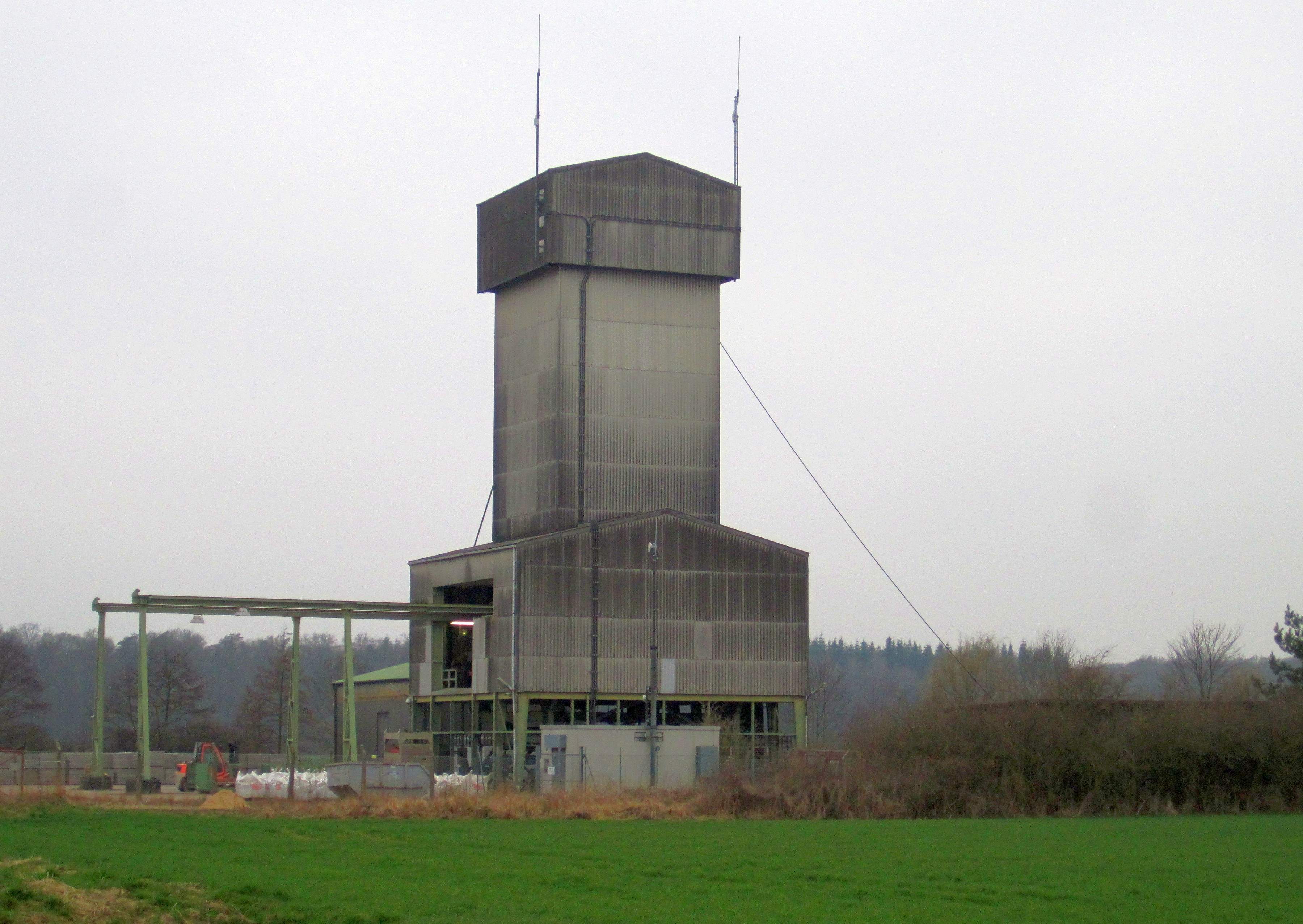 Sigmundshall potash mine Kolenfeld shaft. Wunstorf, Lower Saxony, Germany